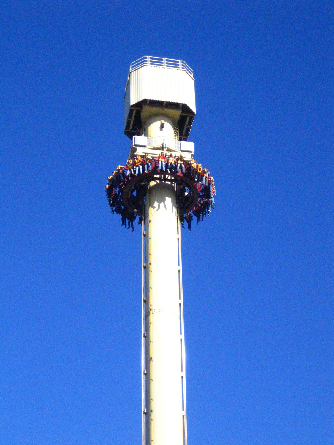 Freefalltower Moviepark Germany